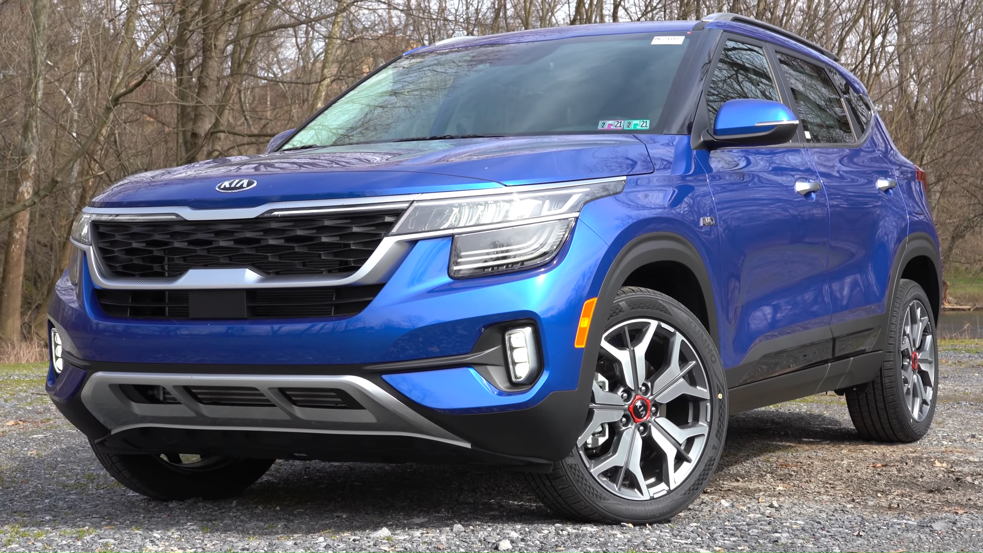 2021 Kia Seltos SX (United States, front) SP model